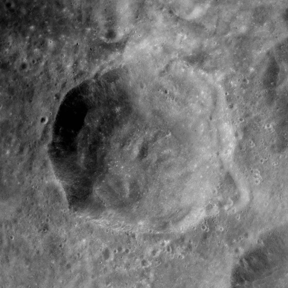 Katchalsky, on the far side of the moon. Sun elevation 50 deg., spacecraft altitude 119 km.